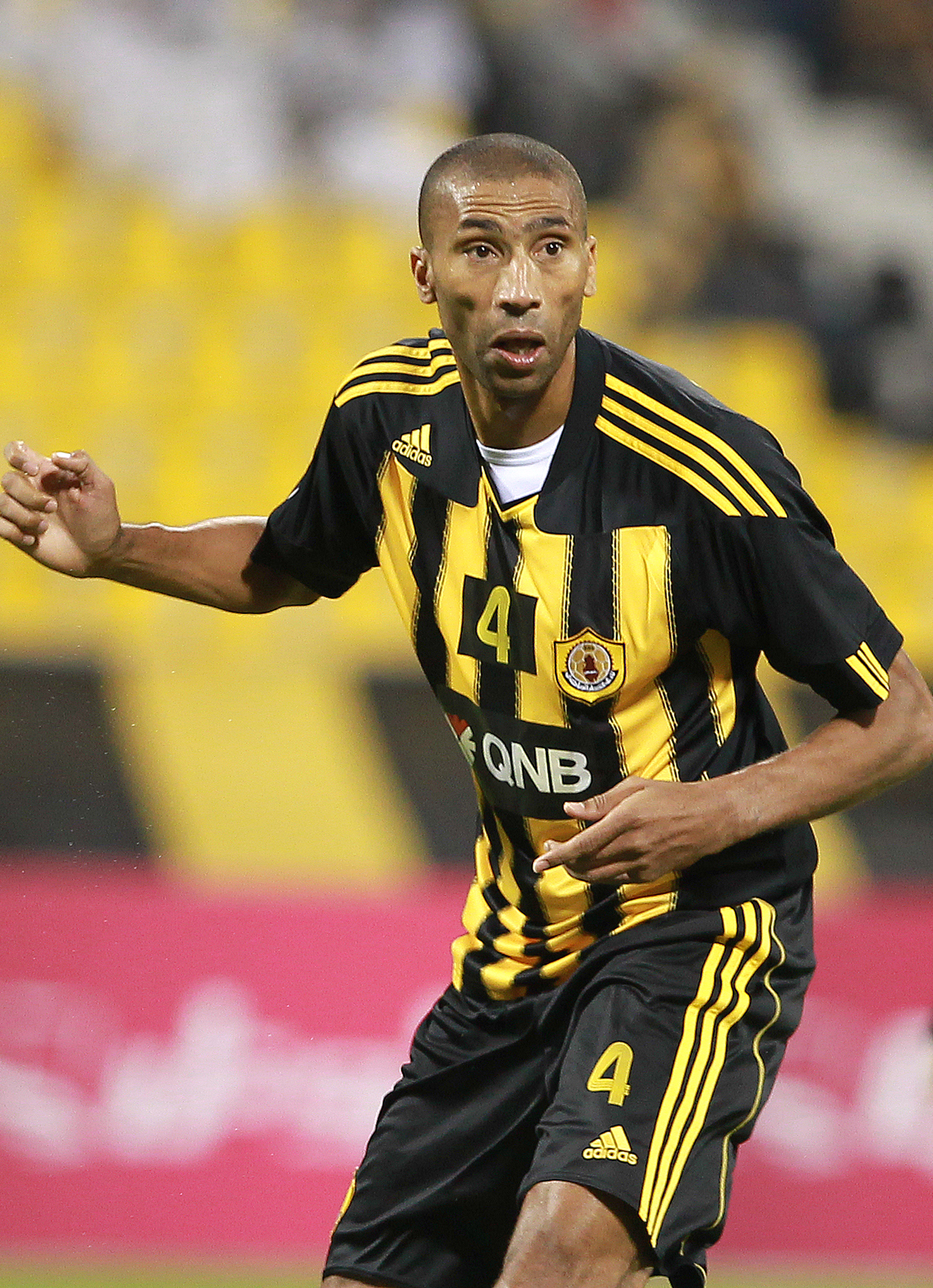 Qatar Sports Club's Moroccan professional Abdeslam Ouaddou reacts during a Qatar Stars League match.